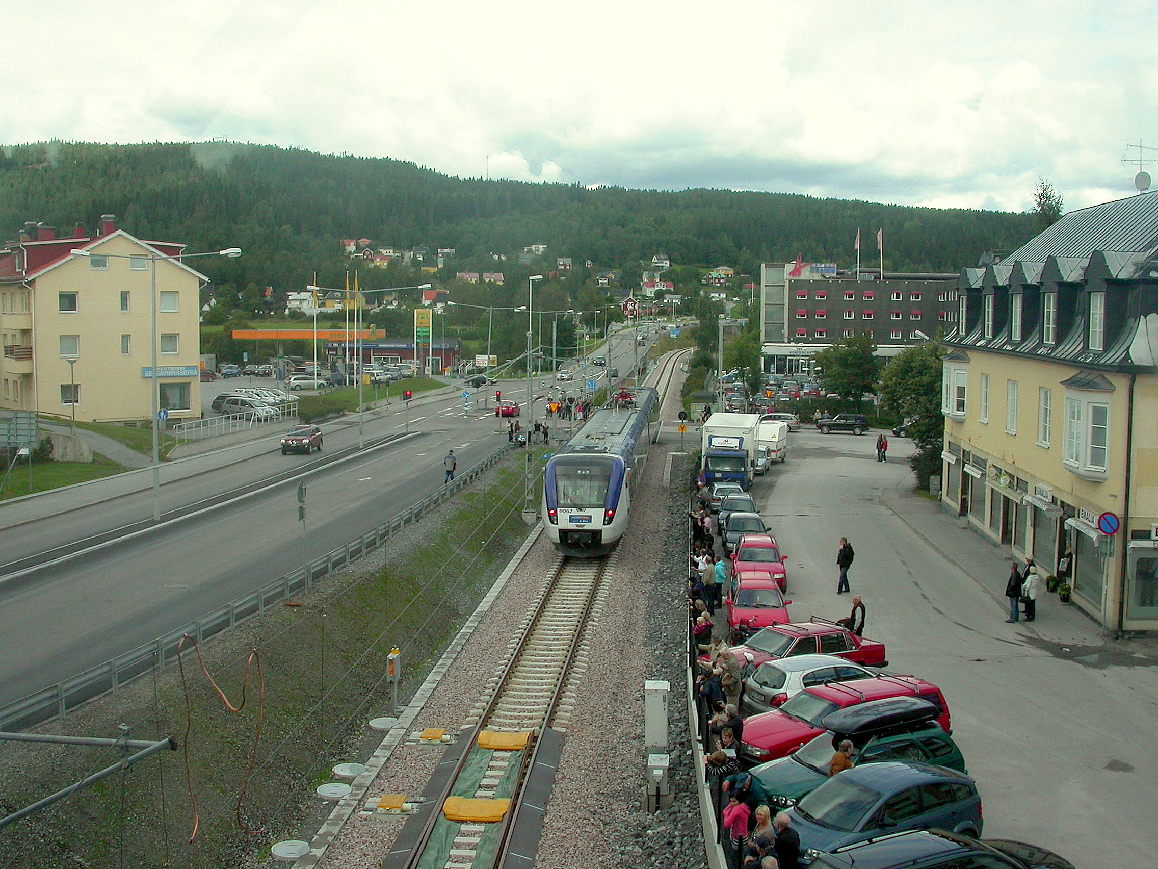 A train is leaving Kramfors as a part of the official opening of Botniabanan